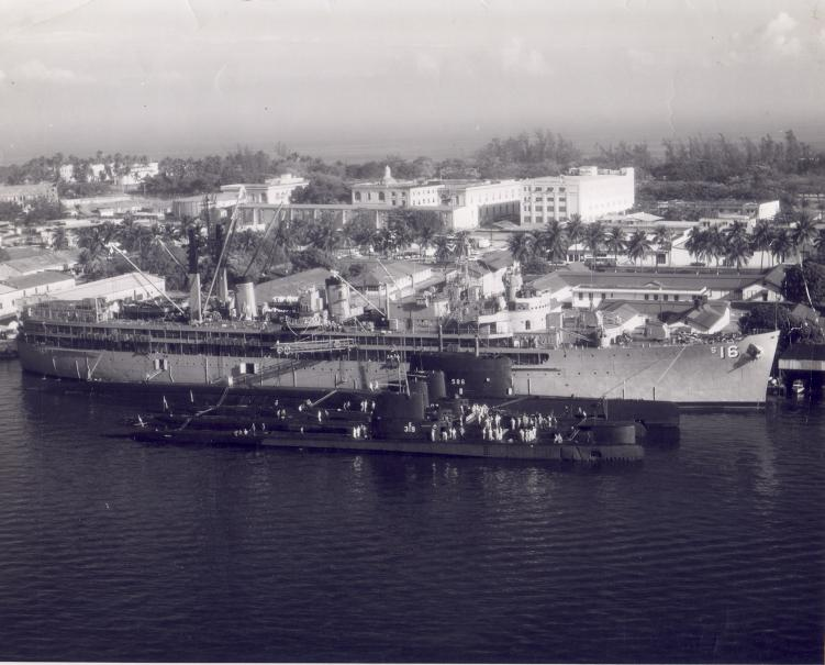 The U.S. Navy Fulton-class submarine tender USS Howard W. Gilmore (AS-16) with four submarines in the 1960s at the Frontier Pier, US Naval Station San Juan, Puerto Rico. The first submarine is the GUPPY 1A-class boat USS Becuna (SS-319). The next is a "fleet snorkel" conversion with a large BQR-4A sonar, either USS Sterlet (SS-392), USS Sea Owl (SS-405), or USS Piper (SS-409). The last submarine, directly alongside Howard W. Gilmore, is USS Triton (SSN-586). All submarines were decommissioned in the late 1960s.